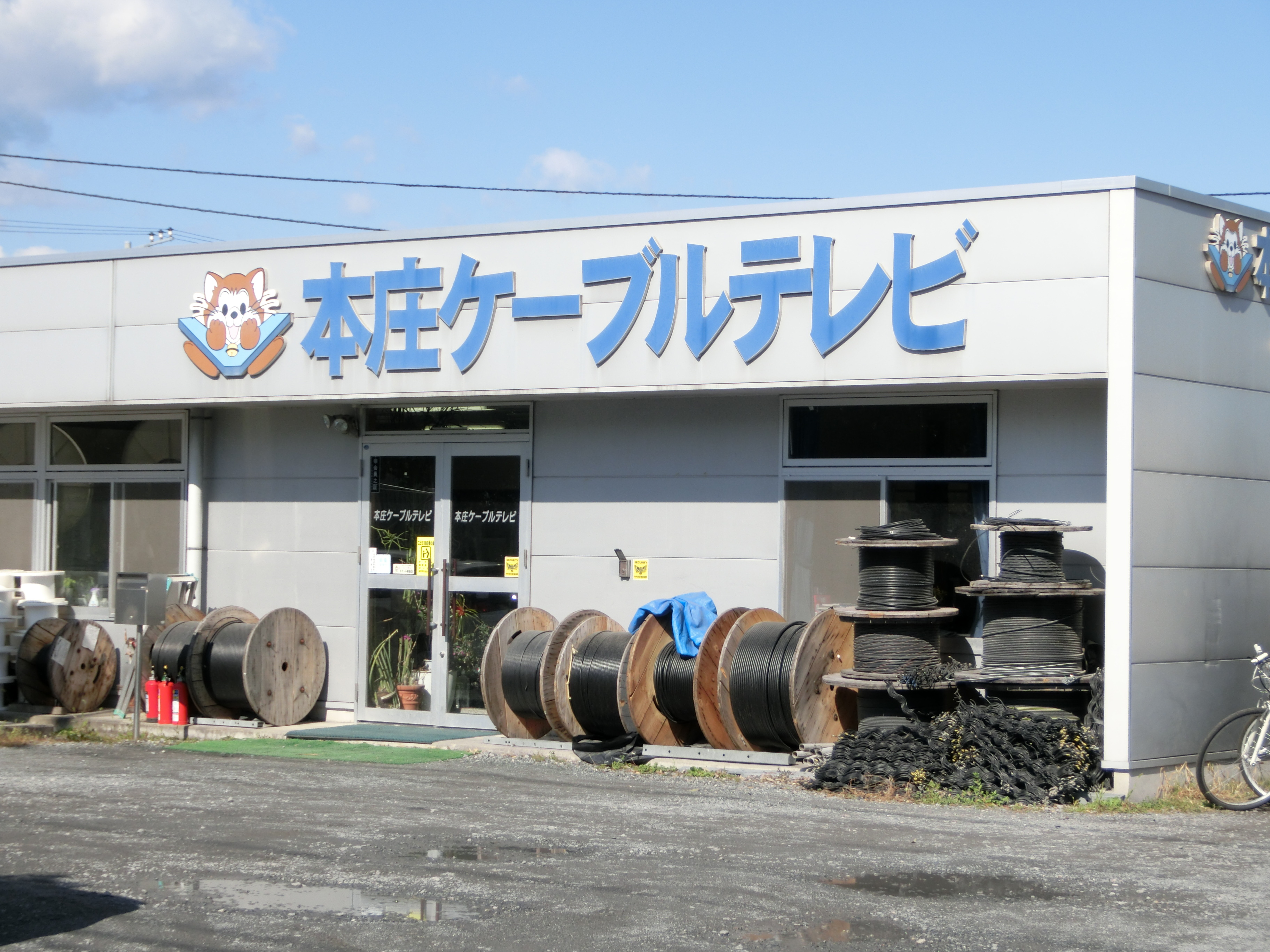 Honjo Cable TV Head Office